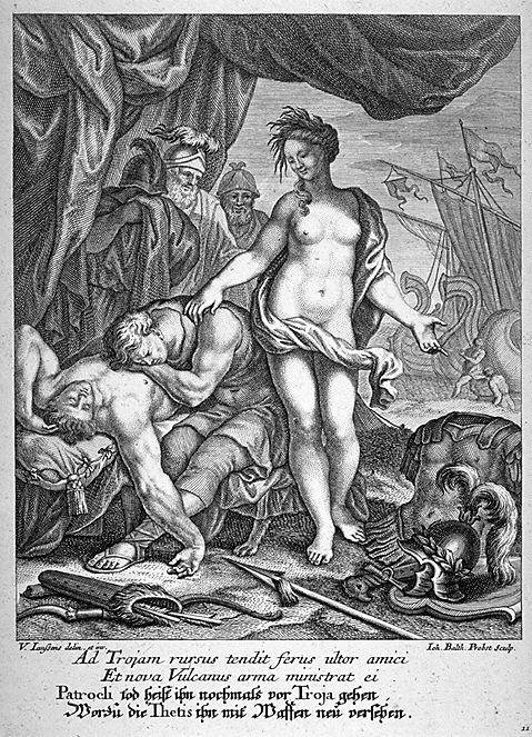 Thetis rearms Achilles, Engraving by Johann Balthasar Probst (1673 - 1748) Fine Arts Museum of San Francisco.